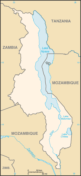 Locator map of Malawi blanked by Bemoeial2